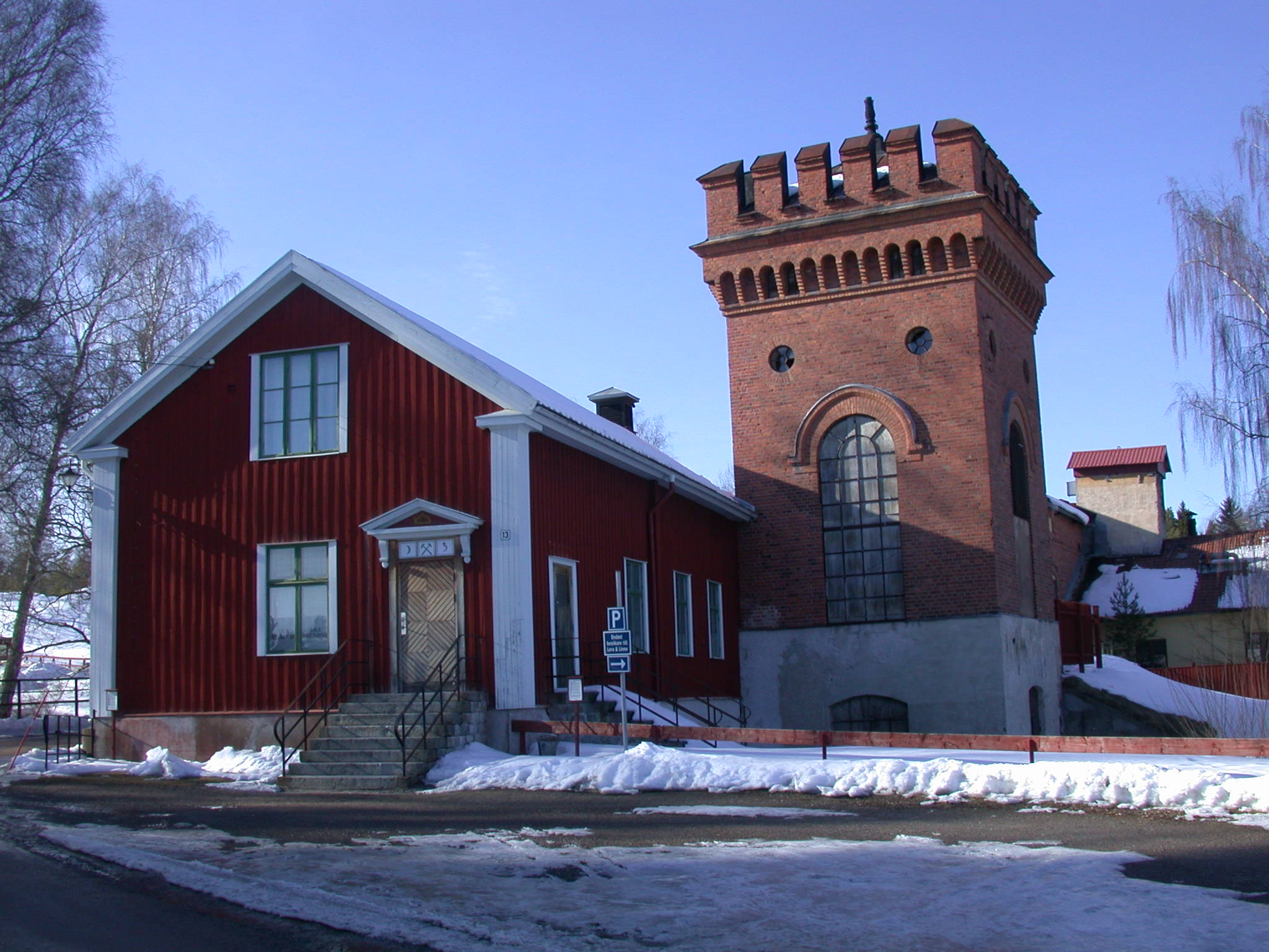 The mine office, , Sala silver mine, Sala, Sweden. Photo: Riggwelter, March 26, 2006.